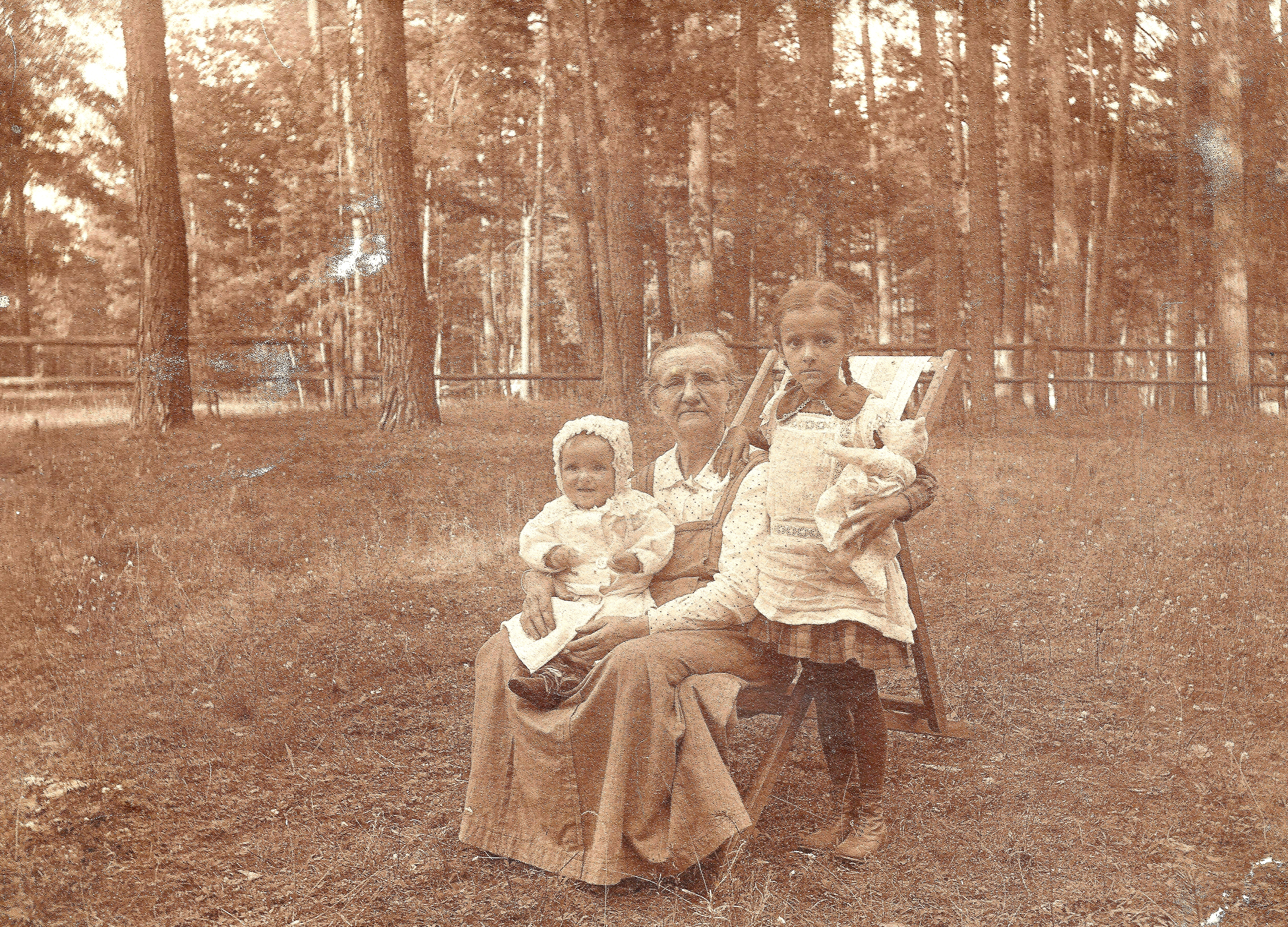 Summer 1917 in Russia near Moscow. In the park of the dacha, a German babushka and her two granddaughters. The children fled with their Swiss parents (probably in 1921) to Switzerland in a dramatic escape, living first in the South of Russia (Rostov-on-Don), later fleeing through Odessa by sealed cattle-carriage to Warsaw. When the family arrived in Basel, they had to endure a obliged quarantine. This was for this family one of the very rare photographies kept under theses conditions.